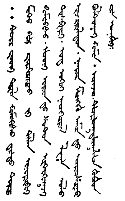 Source: Unknown, I pulled this off the web a way back. But I know it's from a todo bichig translation of the Bible. All of those translations are in the Public Domain.